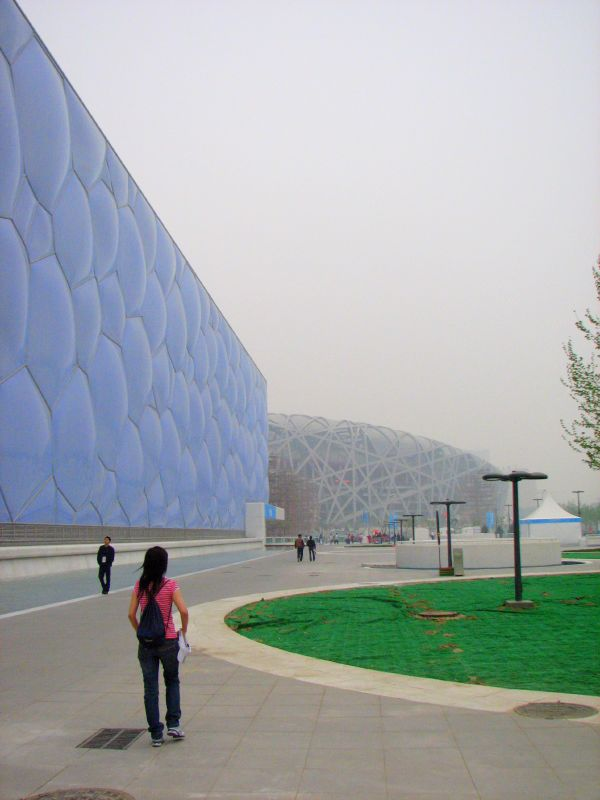 View of the Water Cube and Beijing National Stadium.